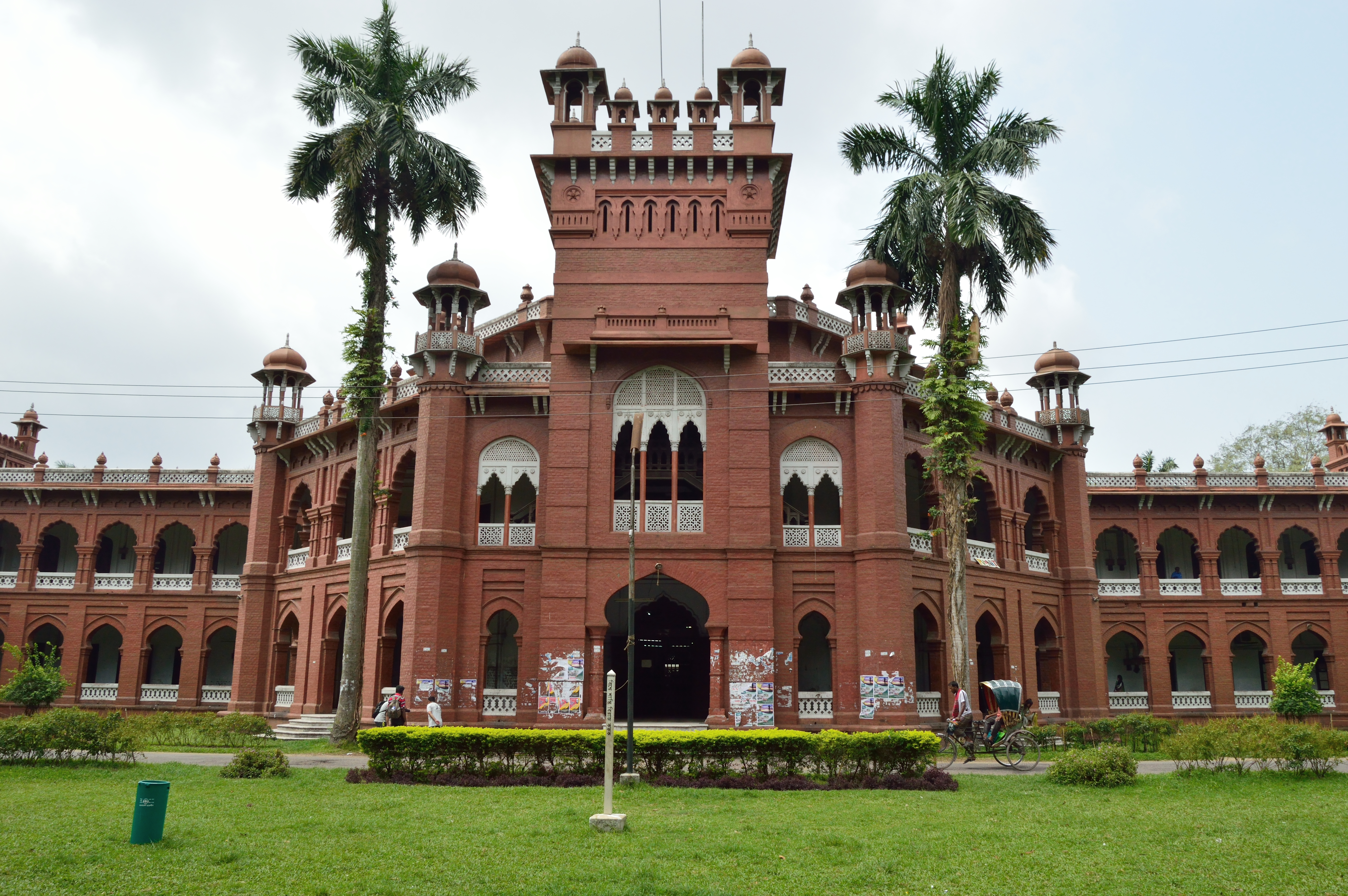 Photographed at the Dhaka university, Dhaka, Bangladesh.